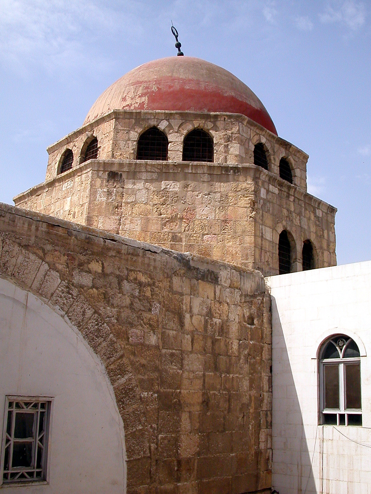 Az-Zahiriyah Library in Damascus